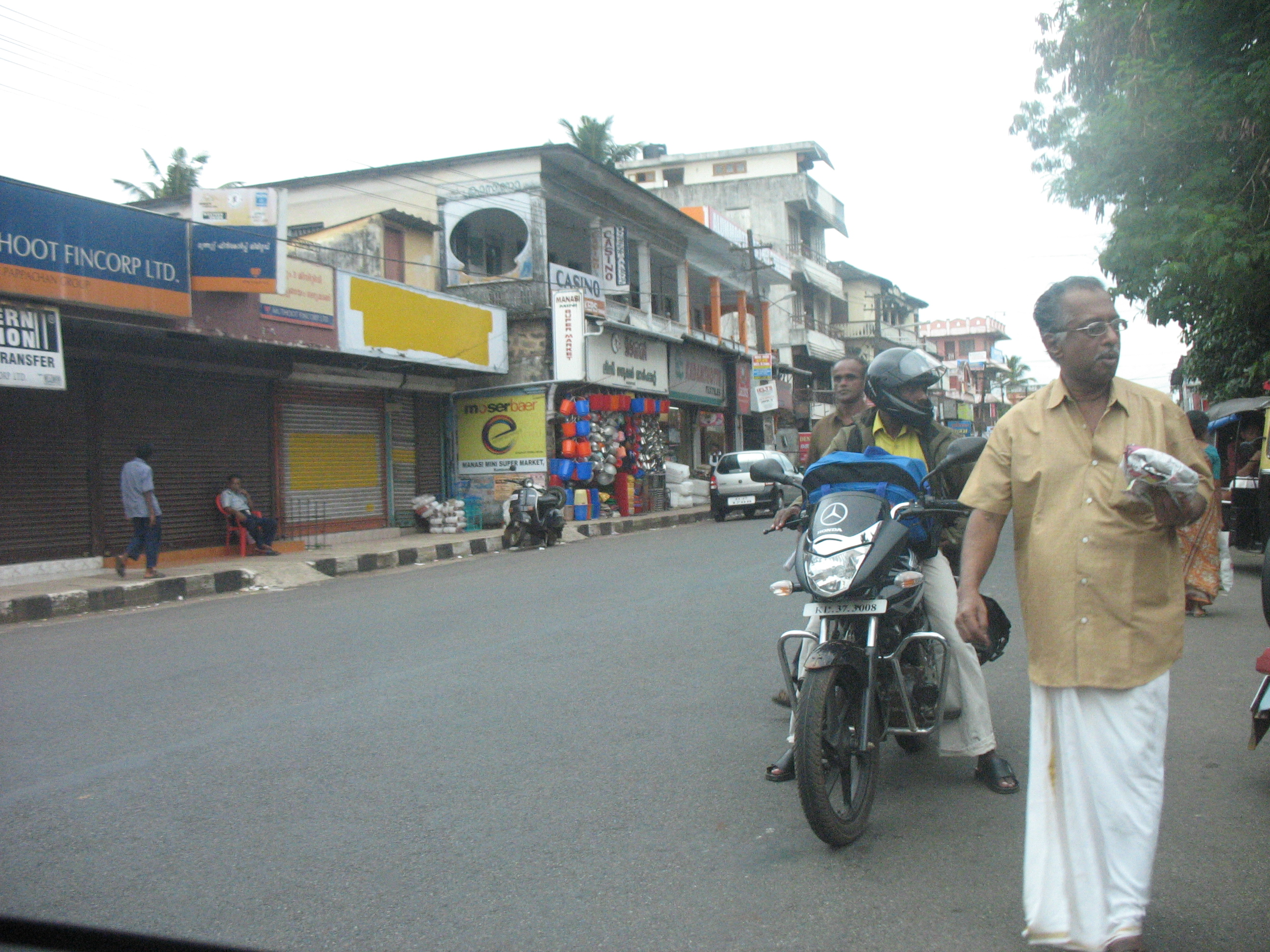 Snap of Kumbanad